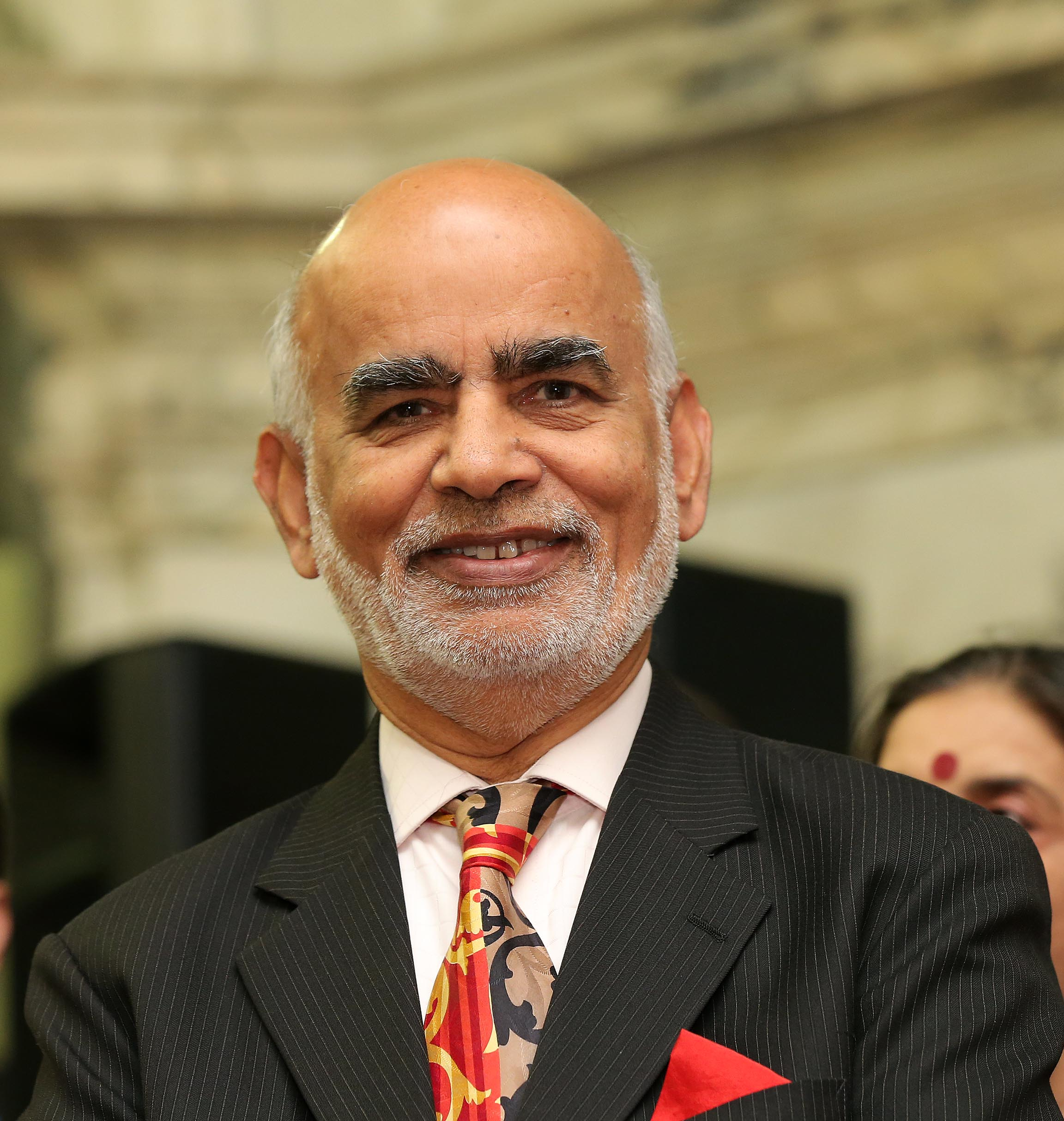 Lord Diljit Singh Rana, President, Andras House, at the 2013 Horasis Global India Business Meeting, Belfast, 23-24 June